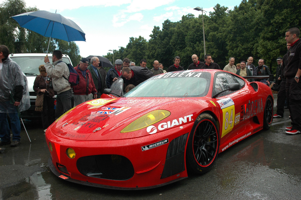 Team Modena's Ferrari F430 GT2 at scrutineering for the 2009 24 Hours of Le Mans